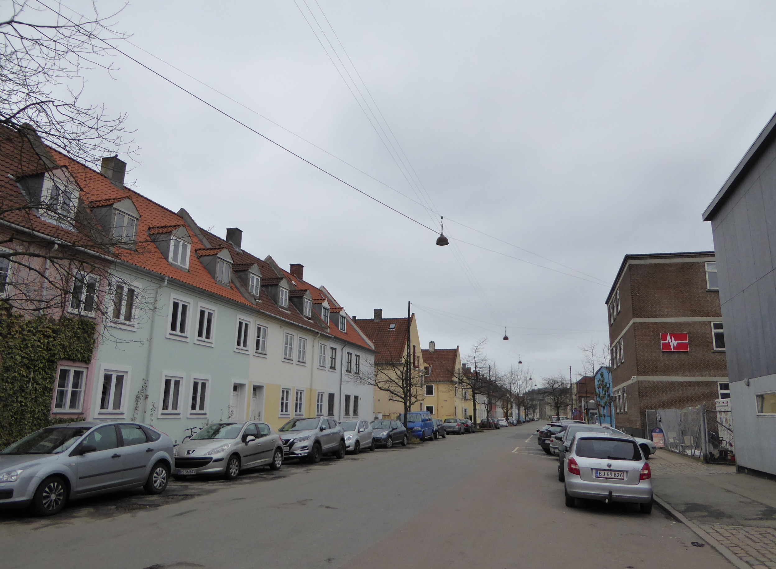 The street Vermundsgade in Østerbro in Copenhagen.